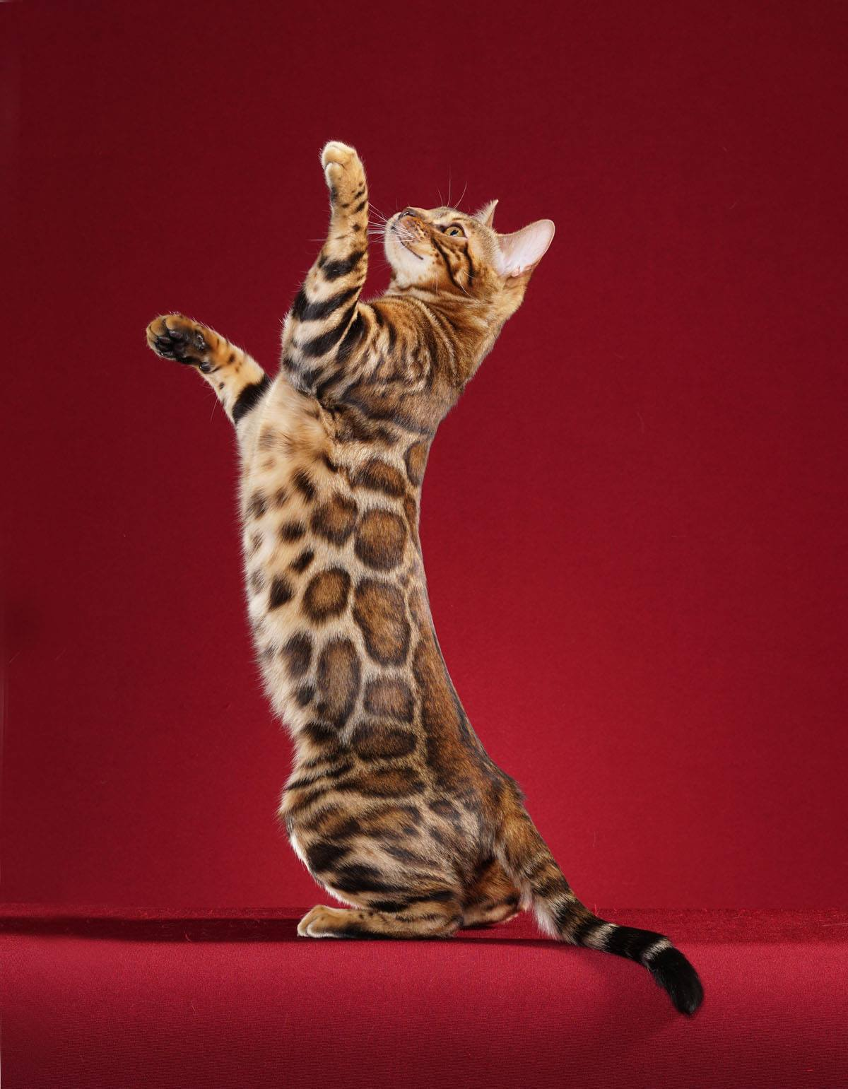 Bengal female with rosettes standing